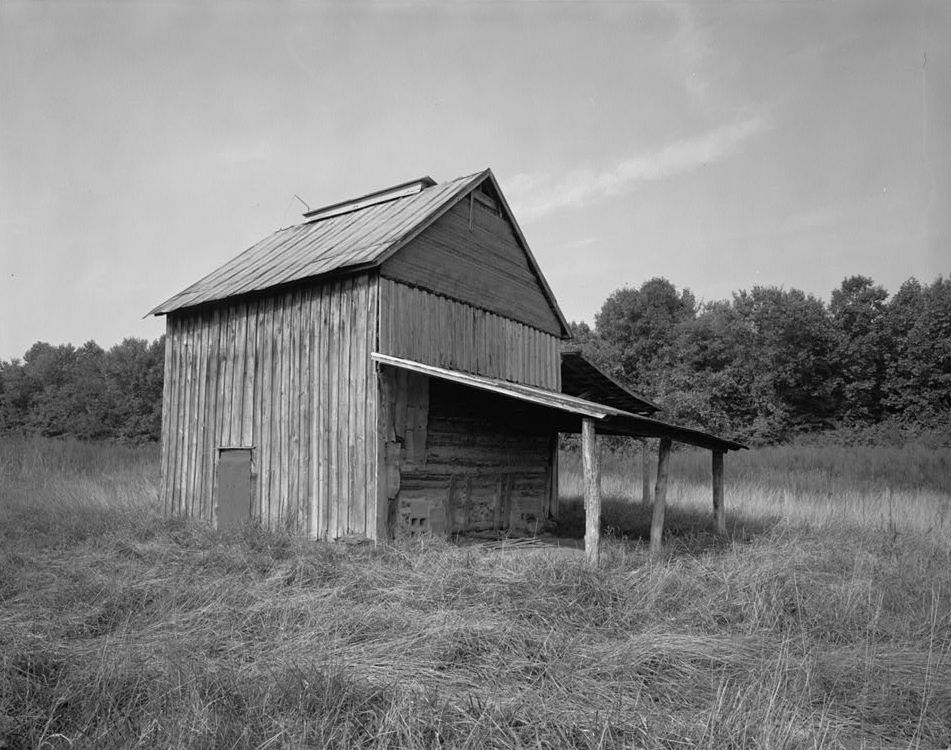 View to the west of a tobacco barn on Edgewood Farm, west side of State Route 600, Clover vicinity, Halifax County, Virginia. Historic American Buildings Survey, The Library of Congress, Washington, D. C.